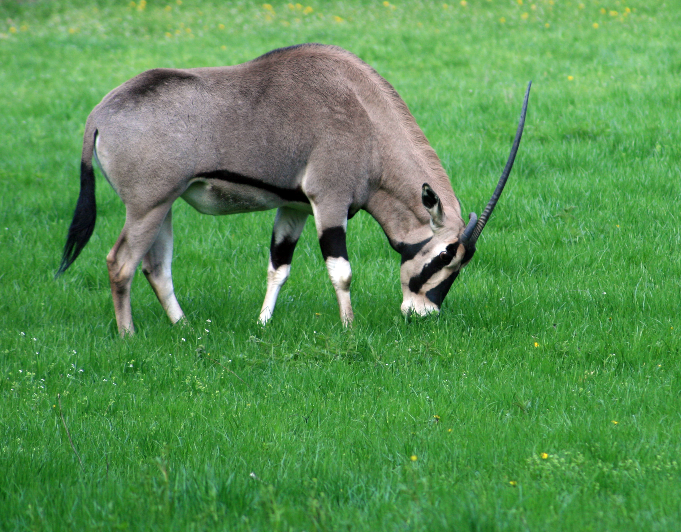 East African Oryx in ZOO Praha, Czech Republic